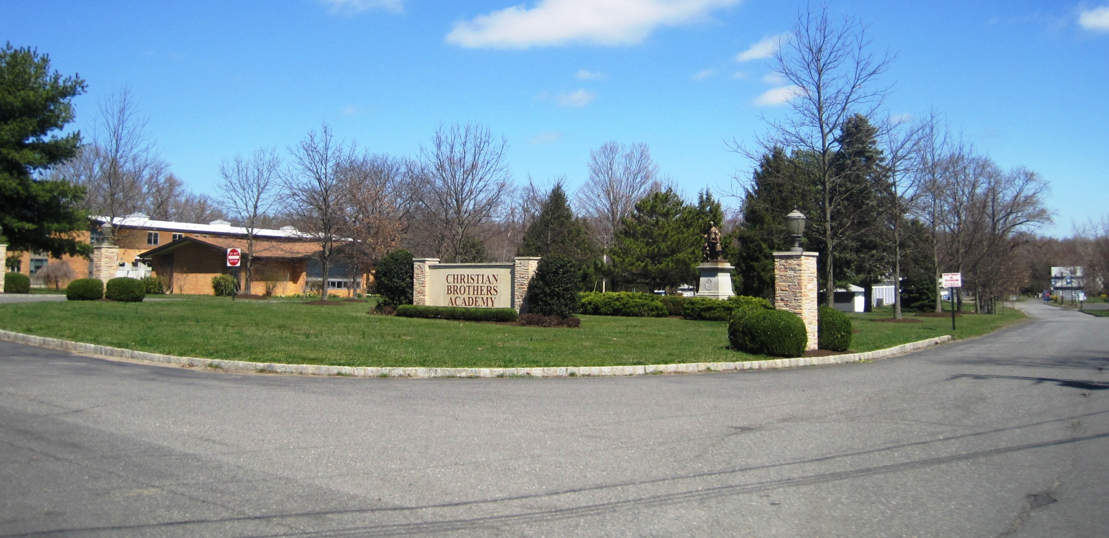 Front of the Christian Brothers Academy in Middletown Township, New Jersey. Photo taken from County Route 520.